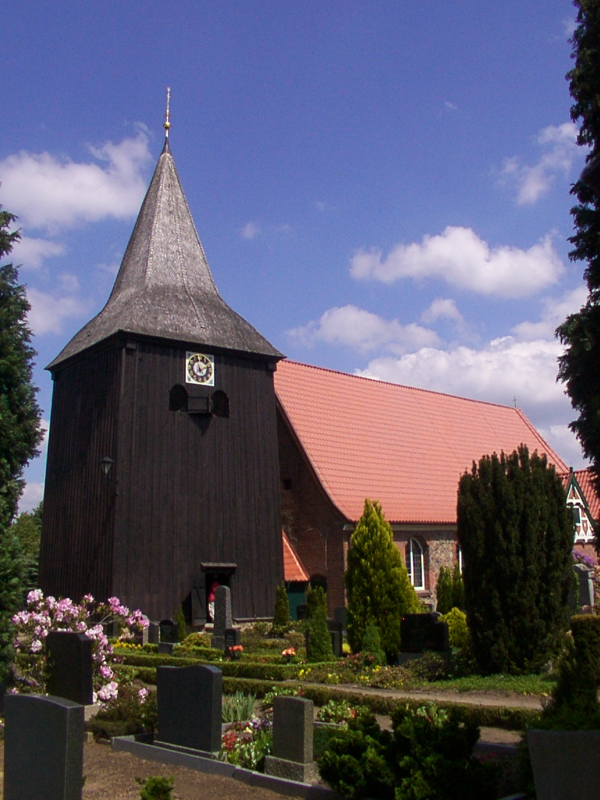 Church St. Nicolai, Hamburg-Altengamme, Germany. First known naming in 1247, but foundation is more than 100 years older. View from the south. This is a photograph of an architectural monument.